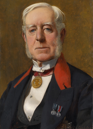 Alexander Hood,1st Viscount Bridport(1814-1904), a royal courtier. dressed in Windsor uniform.